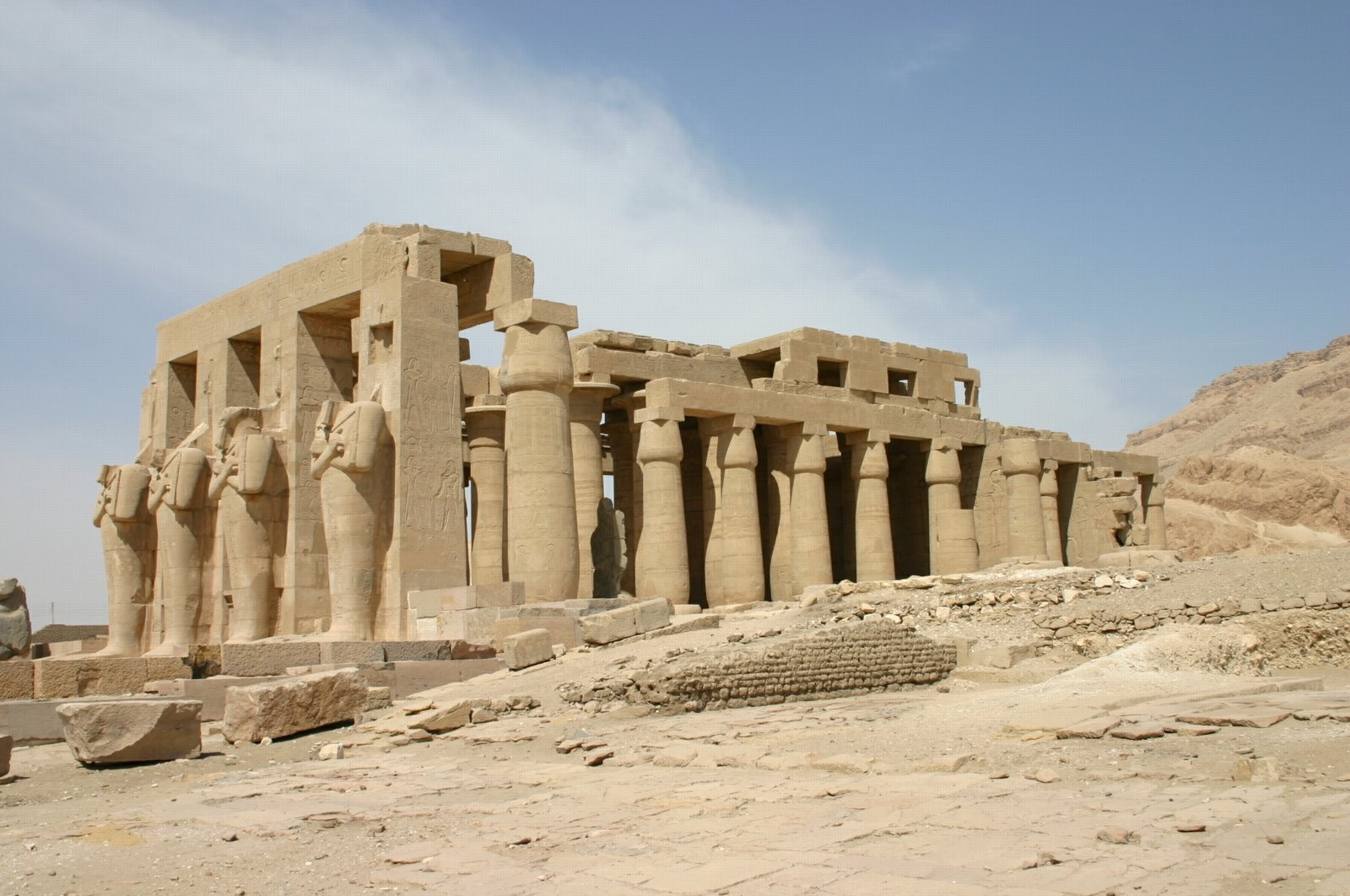 Temple of a million years of Rameses II, Luxor, Egypt.